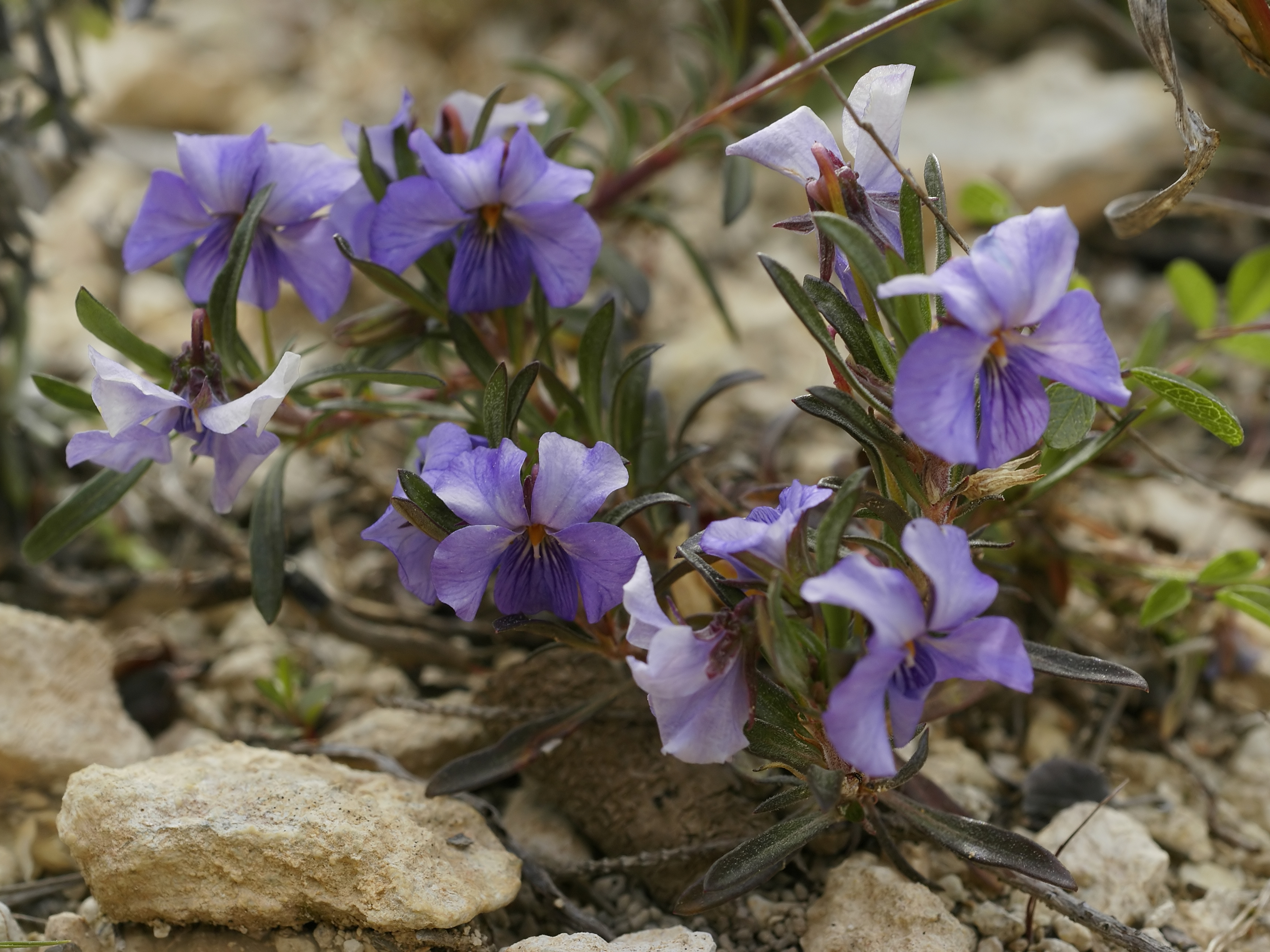 Plant near el Perelló, Catalonia, Spain